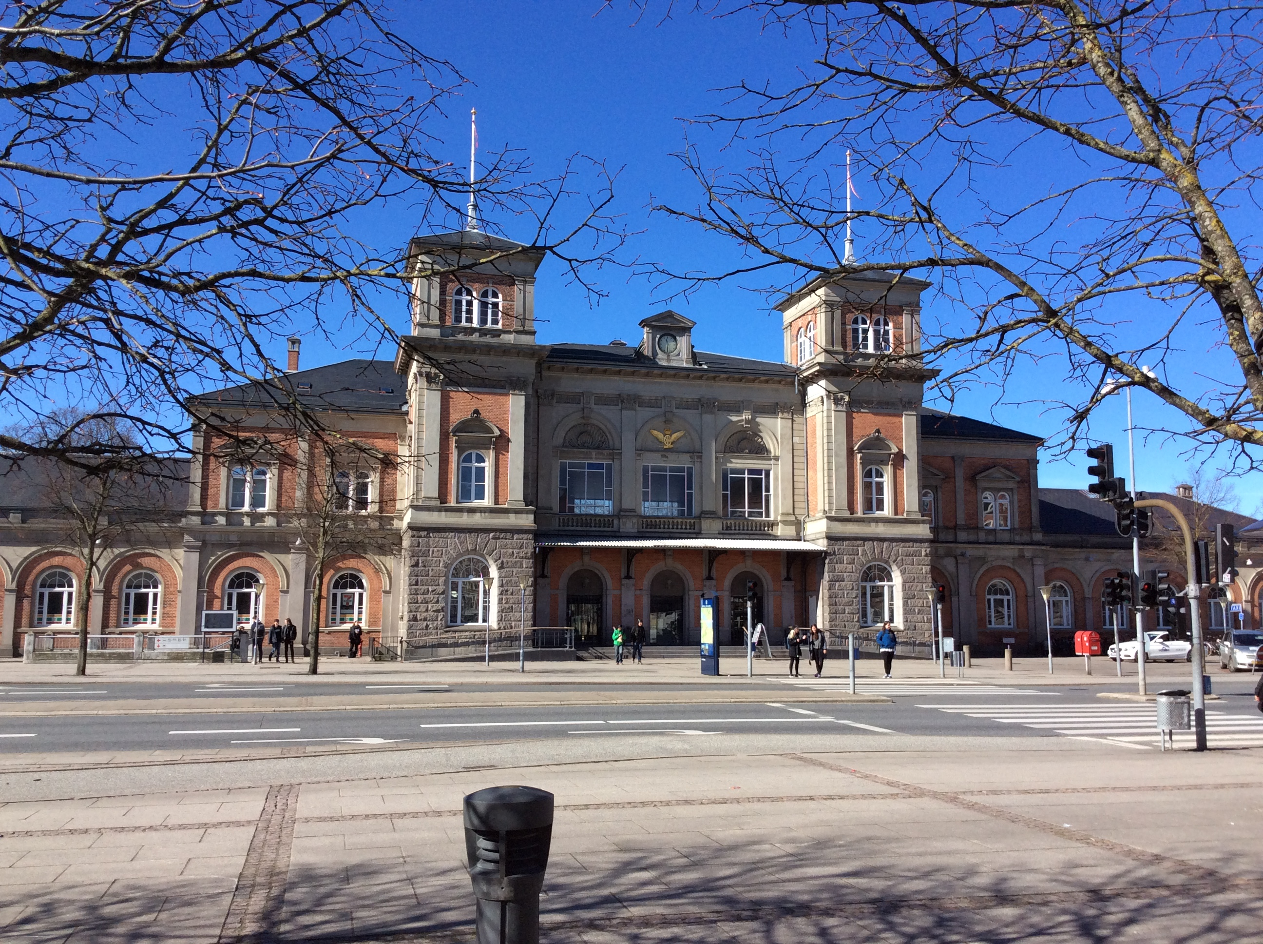 Aalborg train station in Denmark seen from the outside view